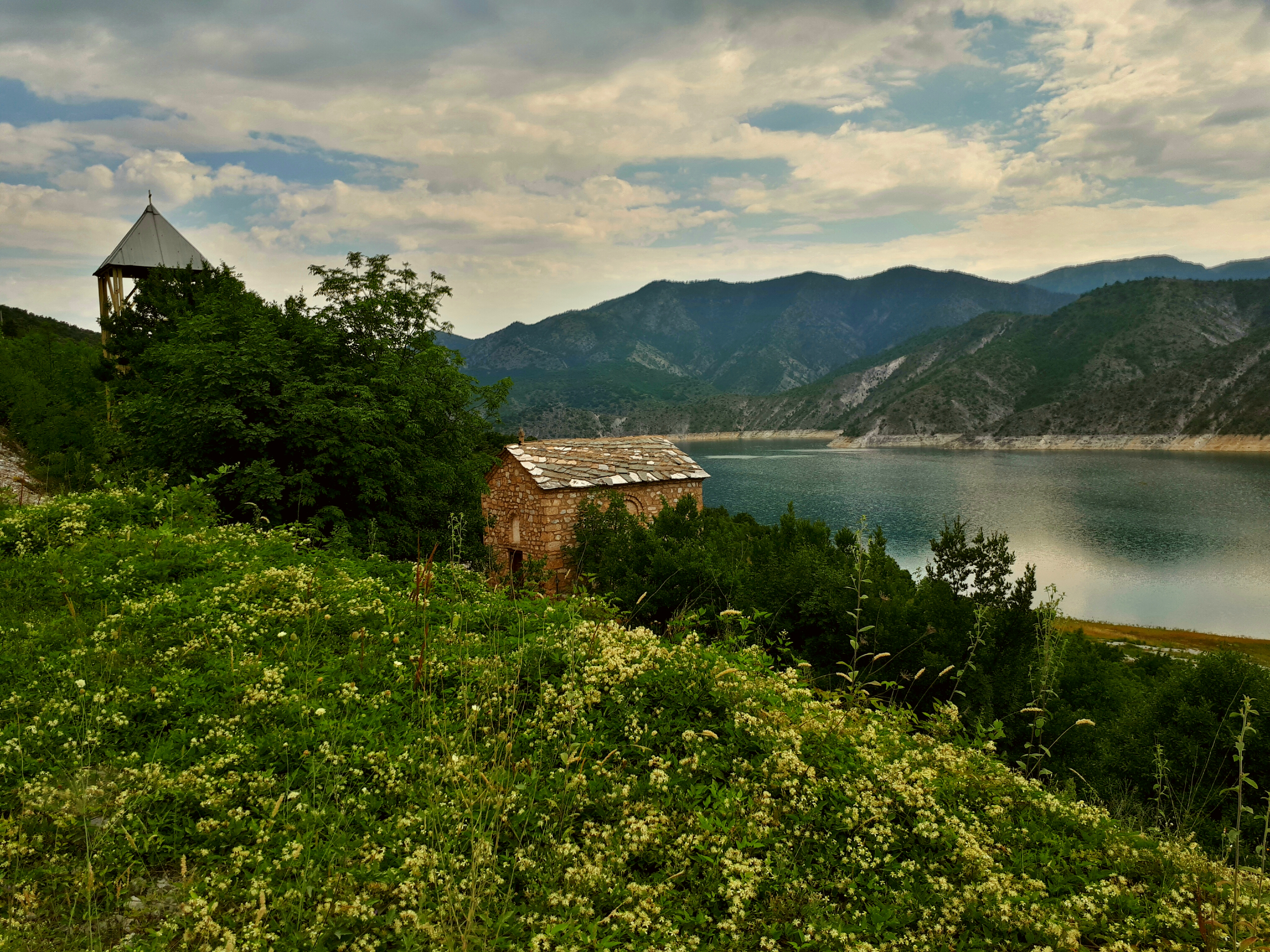 Church of the Presentation of the Theotokos (Zdunje)